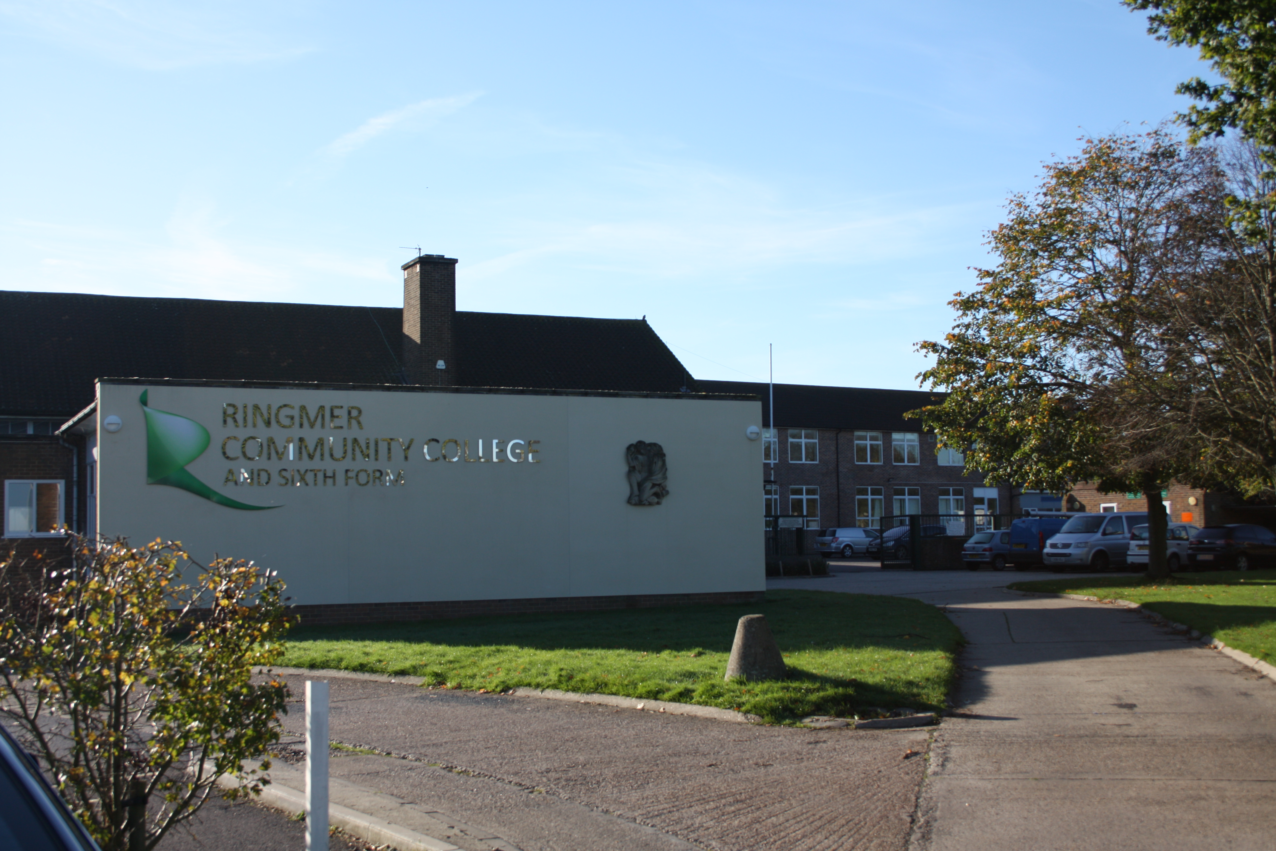 Ringmer Community College & Sixth Form